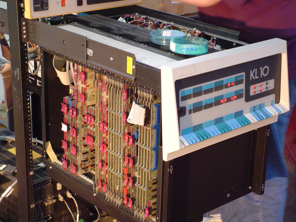 PDP-11/40 front end to a DEC PDP-10 (KL10) mainframe. From the collection of the RCS/RI.